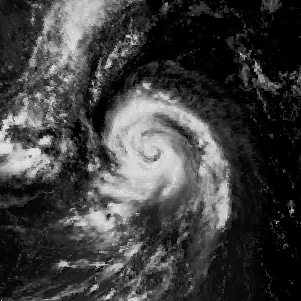 Typhoon Alex, on July 26,1987.